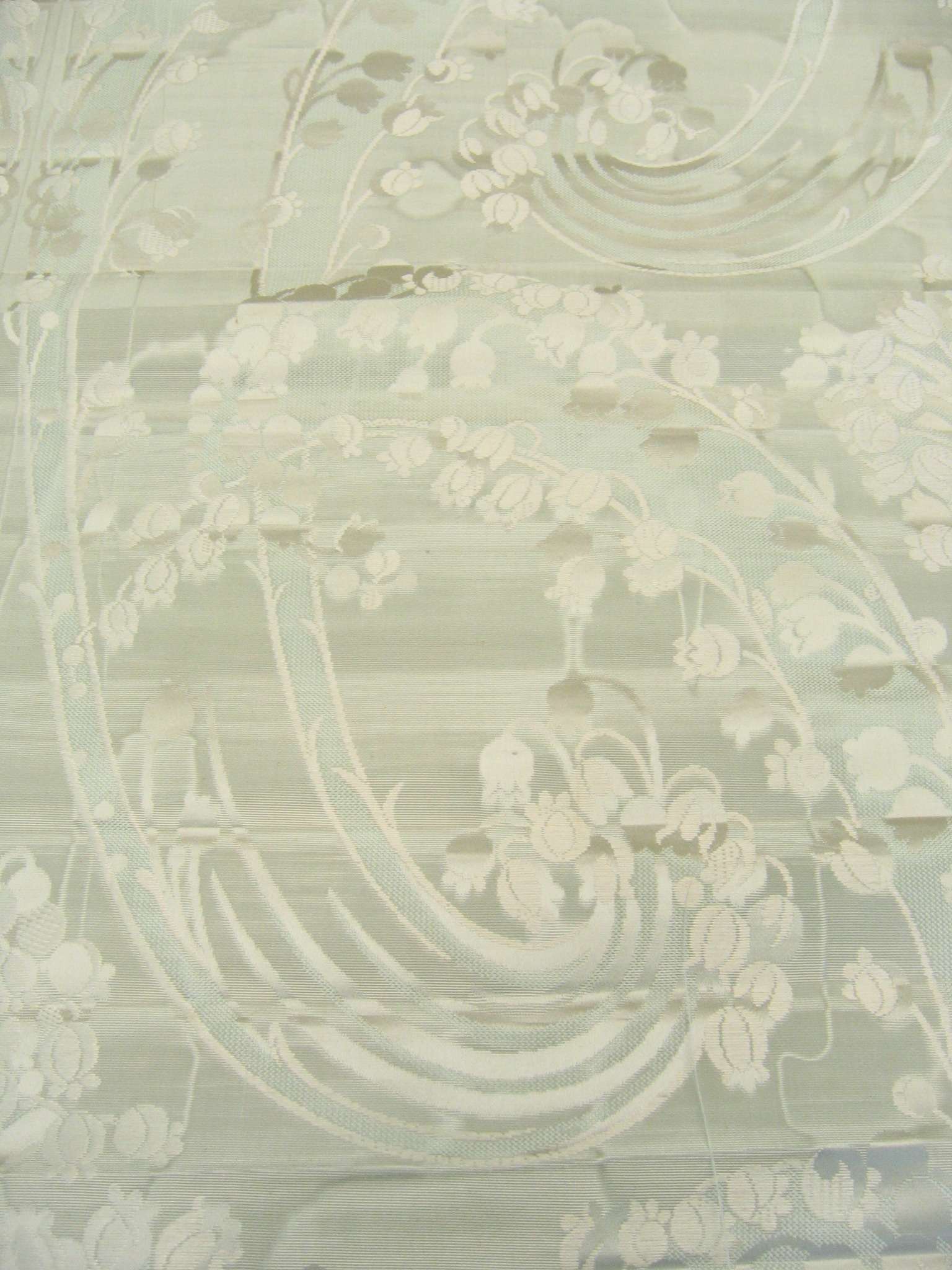 Fabric length, silk damask in pale blue with design of lilies of the valley.